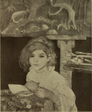 Winifred Hunt (portrait of a young girl) by Hilda Belcher